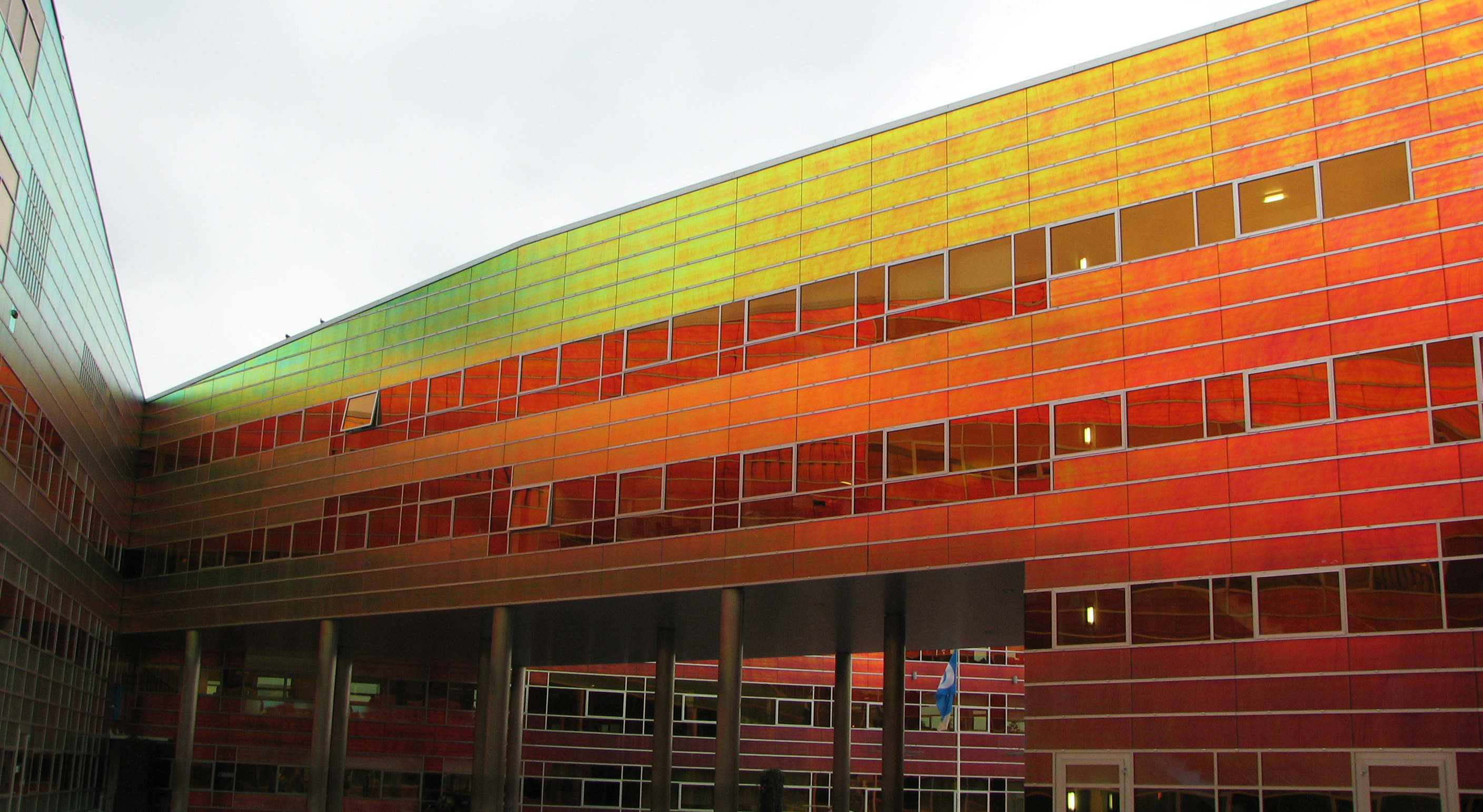 La Defense building by UN Studio in Almere